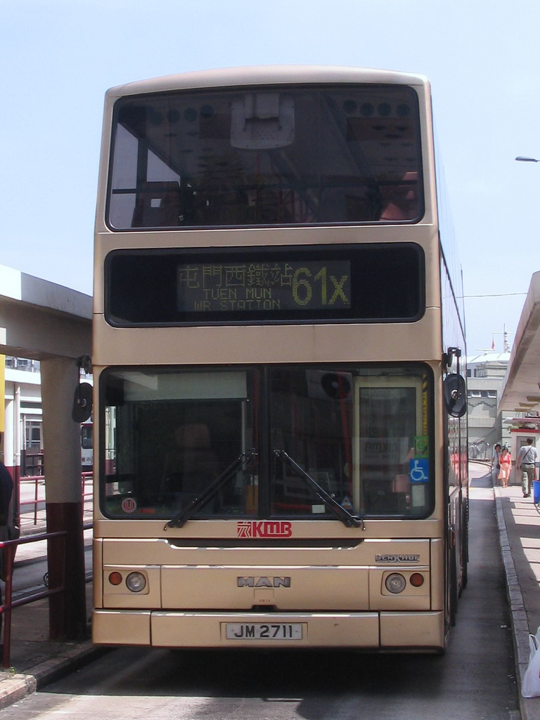 A KMB Route No. 61X bus stopped at Kowloon City Ferry Bus Terminus. Berkhof bus (reg. JM 2711) with MAN 24.310 chassis in Hong Kong.